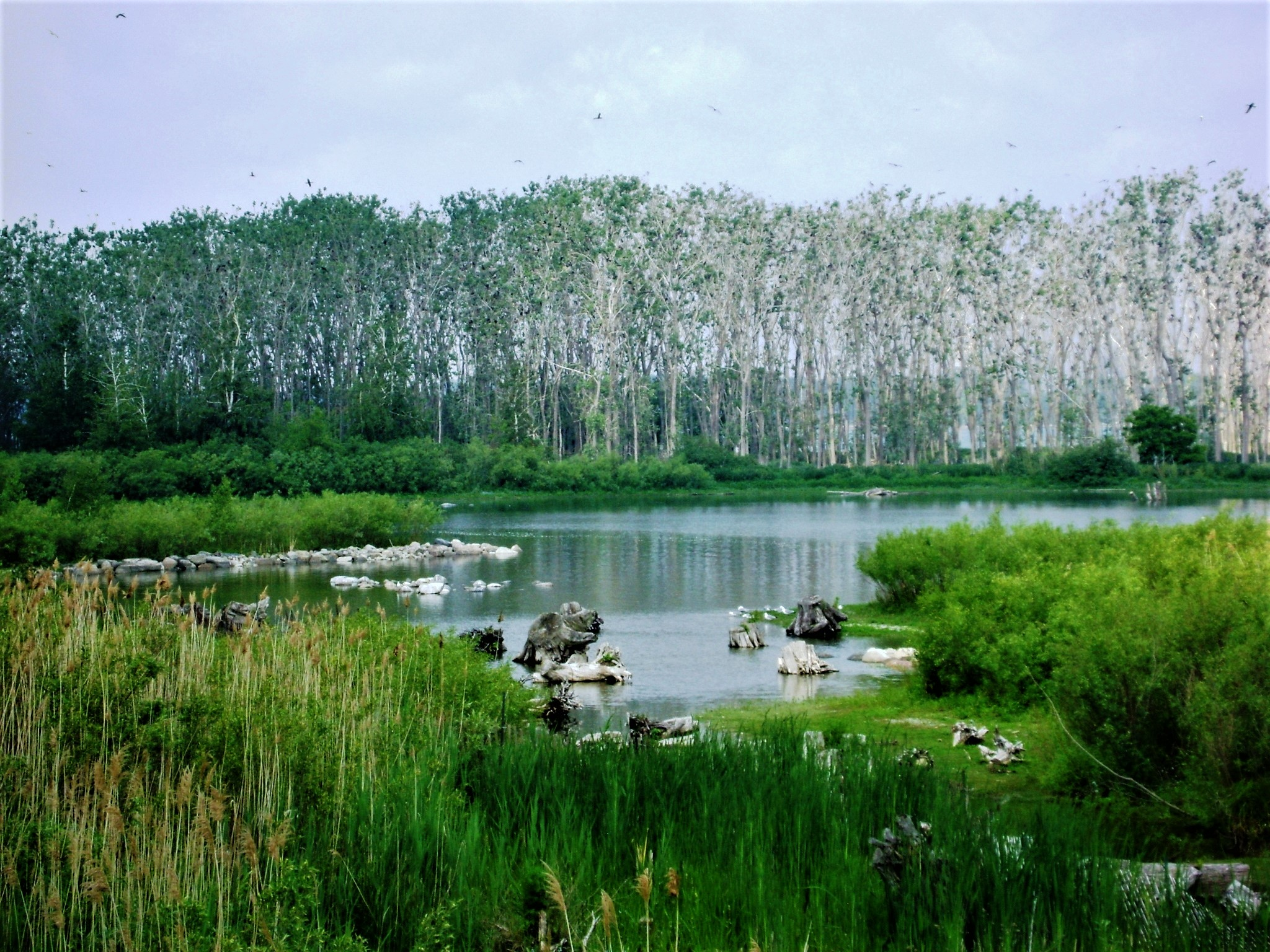 Tommy Thompson Park-Toronto-Ontario